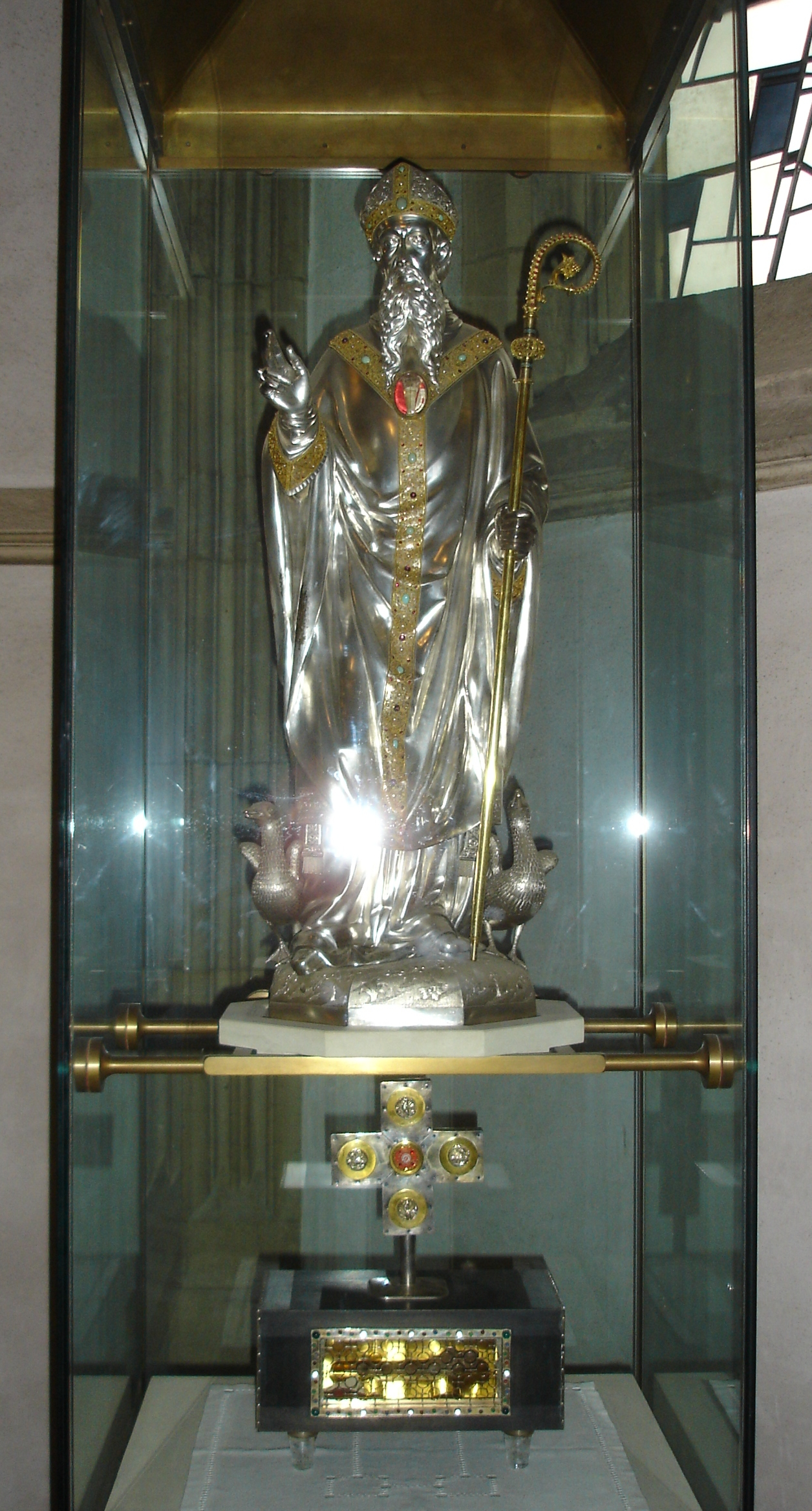 Statue of Liudger in the St.-Pauls-Cathedral in Münster, Westphalia, Germany